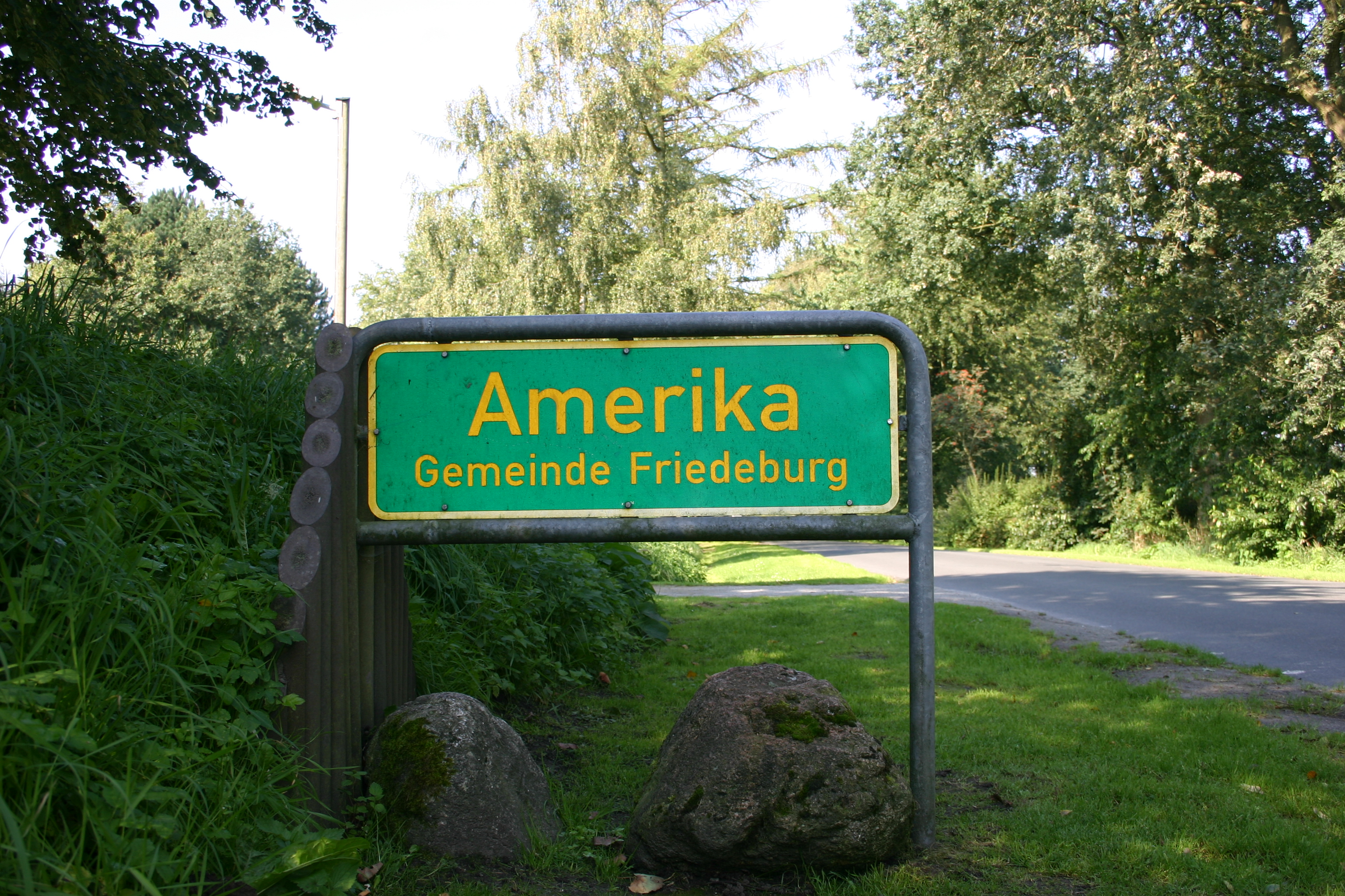 Signpost "Amerika" in the community of Friedeburg, district of Wittmund, East Frisia, Germany